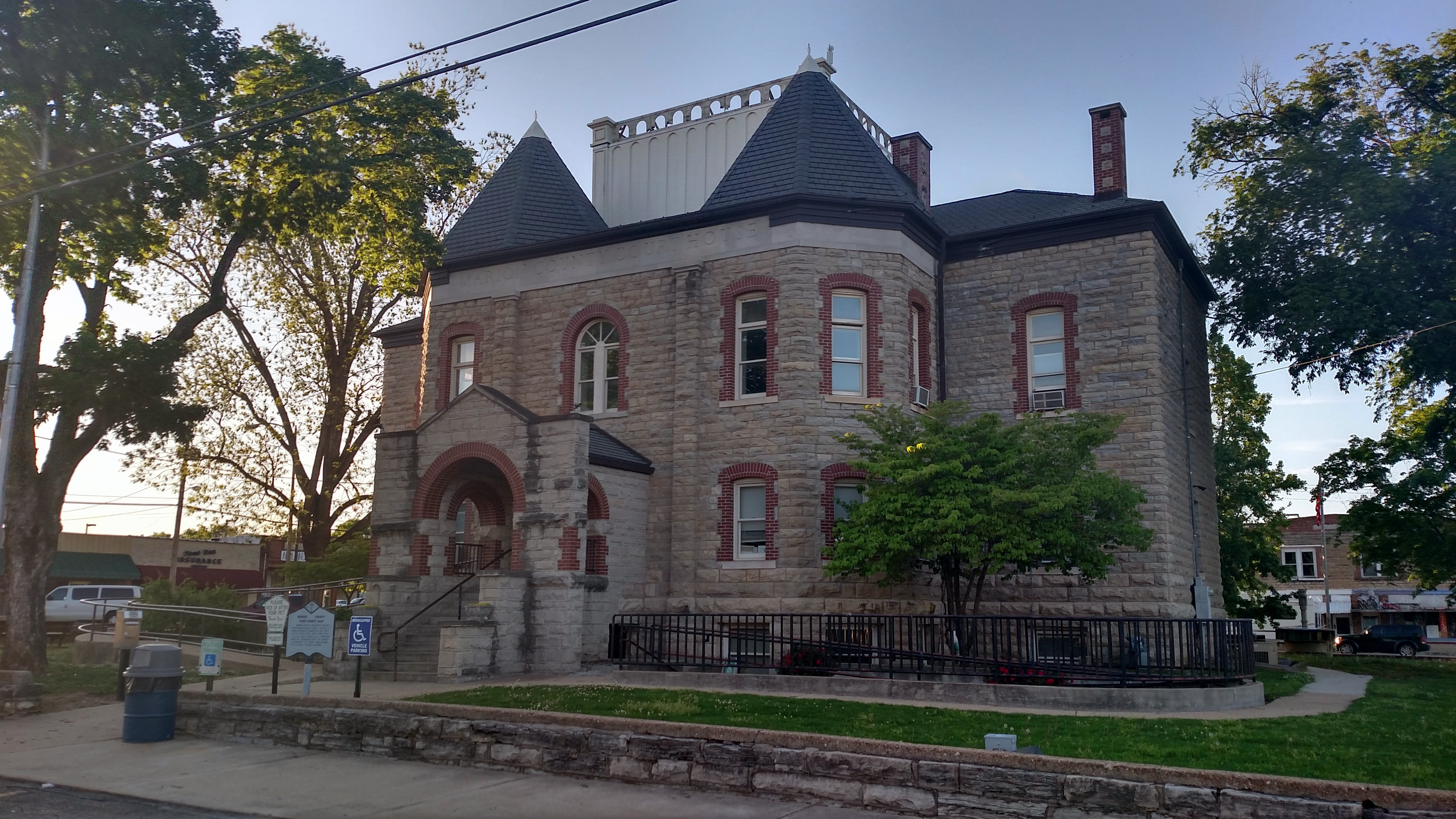 Marion County Courthouse in downtown Yellville